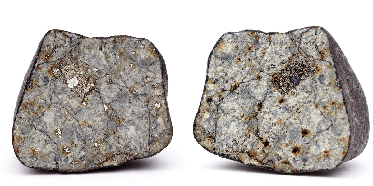 Macro photo of a piece of Chebarkul meteorite made by Ekaterinburg photographer Pavel Maltsev at Ural Federal University.